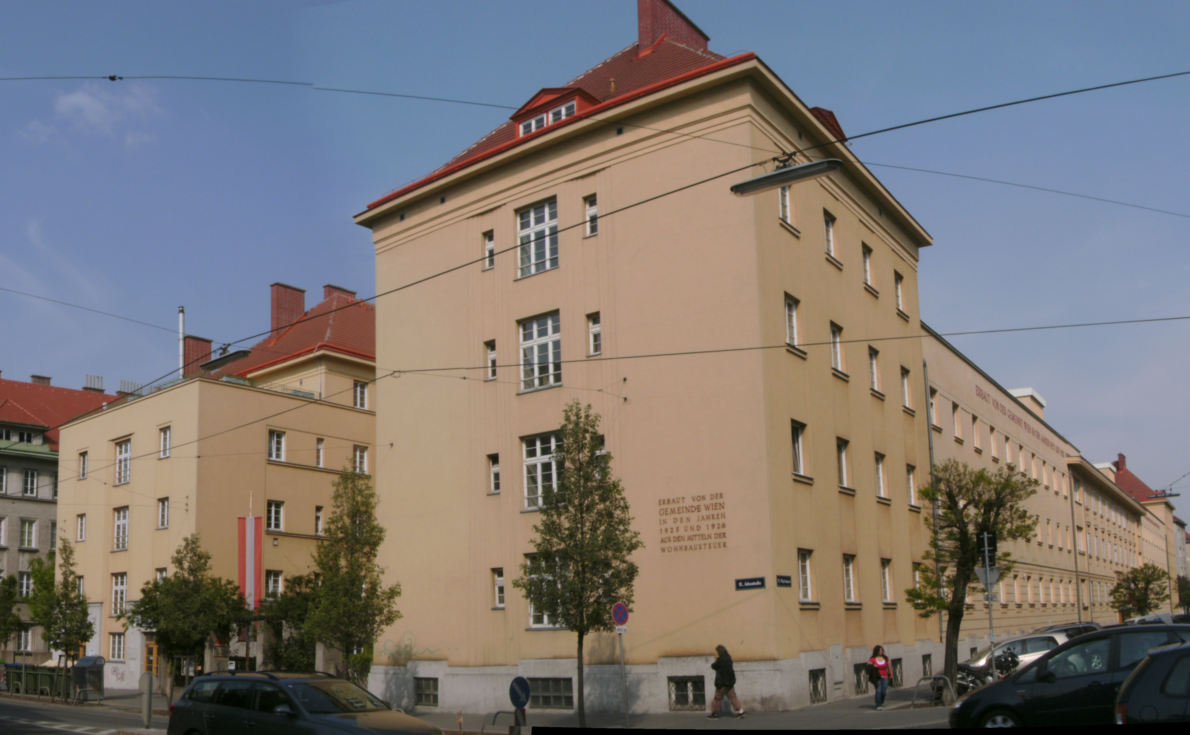 Municipal residential building in Johnstrasse 52-54, Vienna's 15th district